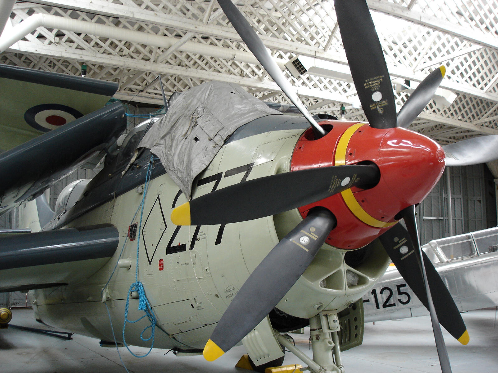 Fairey Gannnet at Duxford Imperial War Museum.